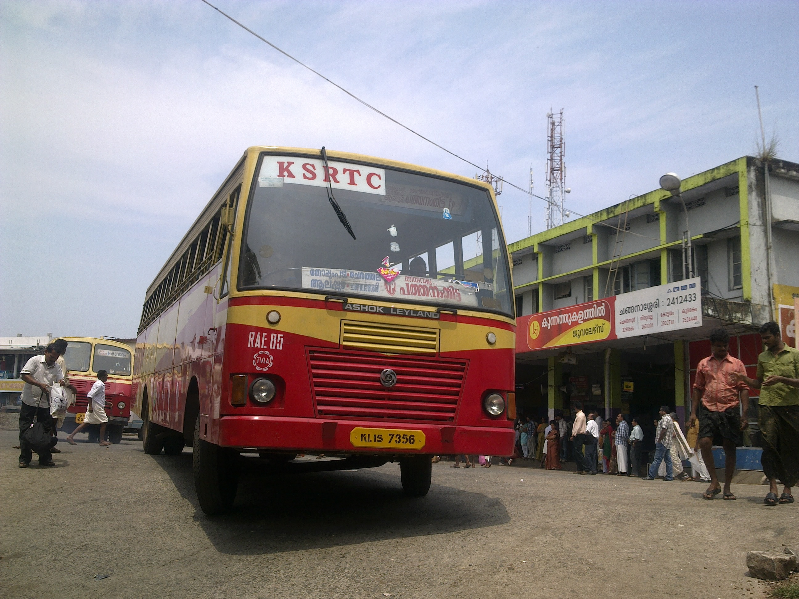 Changanassery KSRTC Bus Station